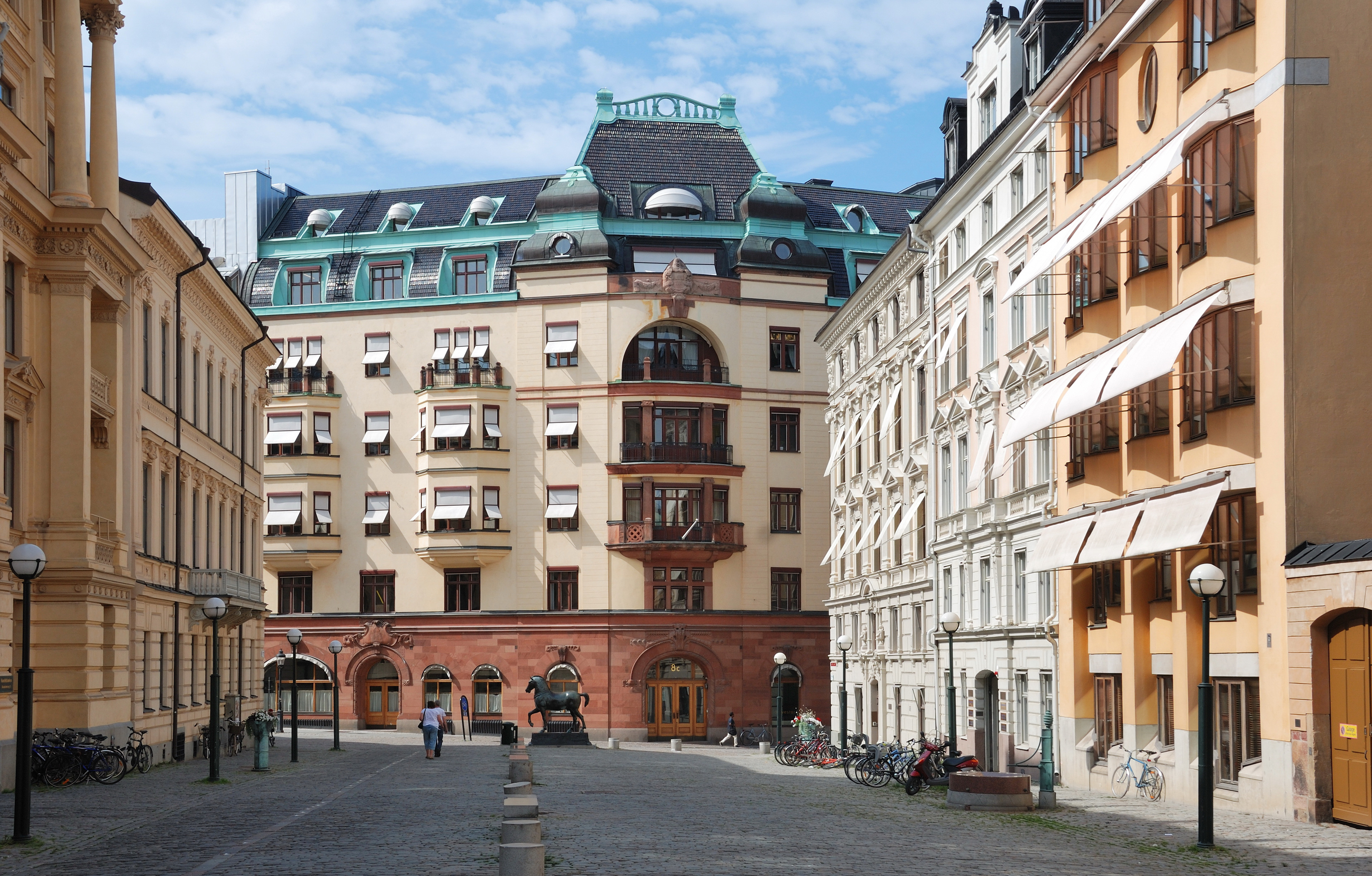 Blasieholmstorg, July 2011.